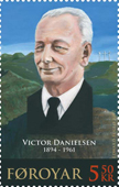 Stamps FO 601-603 of the Faroe Islands: Bibel translators Jákup Dahl, Kristian Osvald Viderø and Victor Danielsen